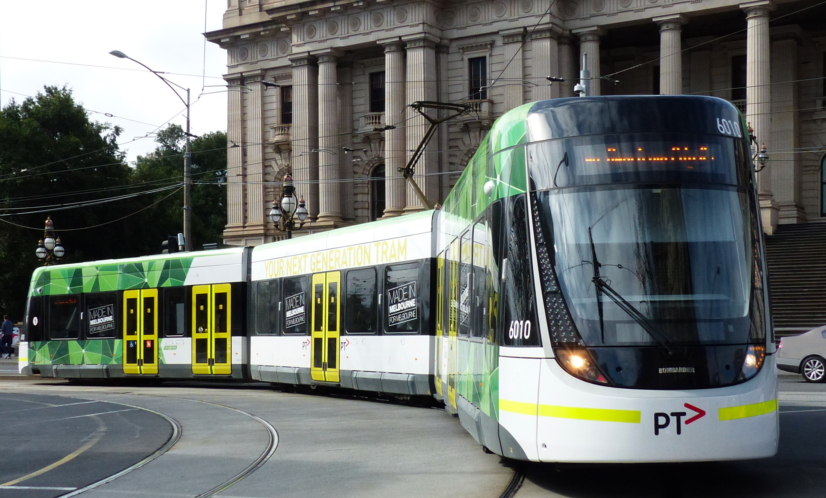 The E-class trams are three-section, four-bogie articulated trams that were first introduced to the Melbourne tram network in 2013. They are being built by Bombardier Transportation's Dandenong factory, with the propulsion systems and bogies coming from Bombardier factories in Germany. The E-class is part of the Tram Procurement Program, a Public Transport Victoria project aimed at increasing capacity and reliability of the tram network through the introduction of new trams, creation of new depot space, and upgrades to existing infrastructure. In September 2010, 50 were ordered with an option to purchase a further 100. In May 2015, a further 20 were ordered which will take the total to 70. The first tram was delivered in June 2013 and after testing entered service on route 96 on 4 November 2013. As at the 27th August 2015, twenty seven were in service and one under testing and commissioning